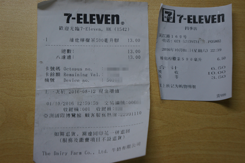 Comparison of receipts of 7-11 stores in Hong Kong and Shanghai about same product.